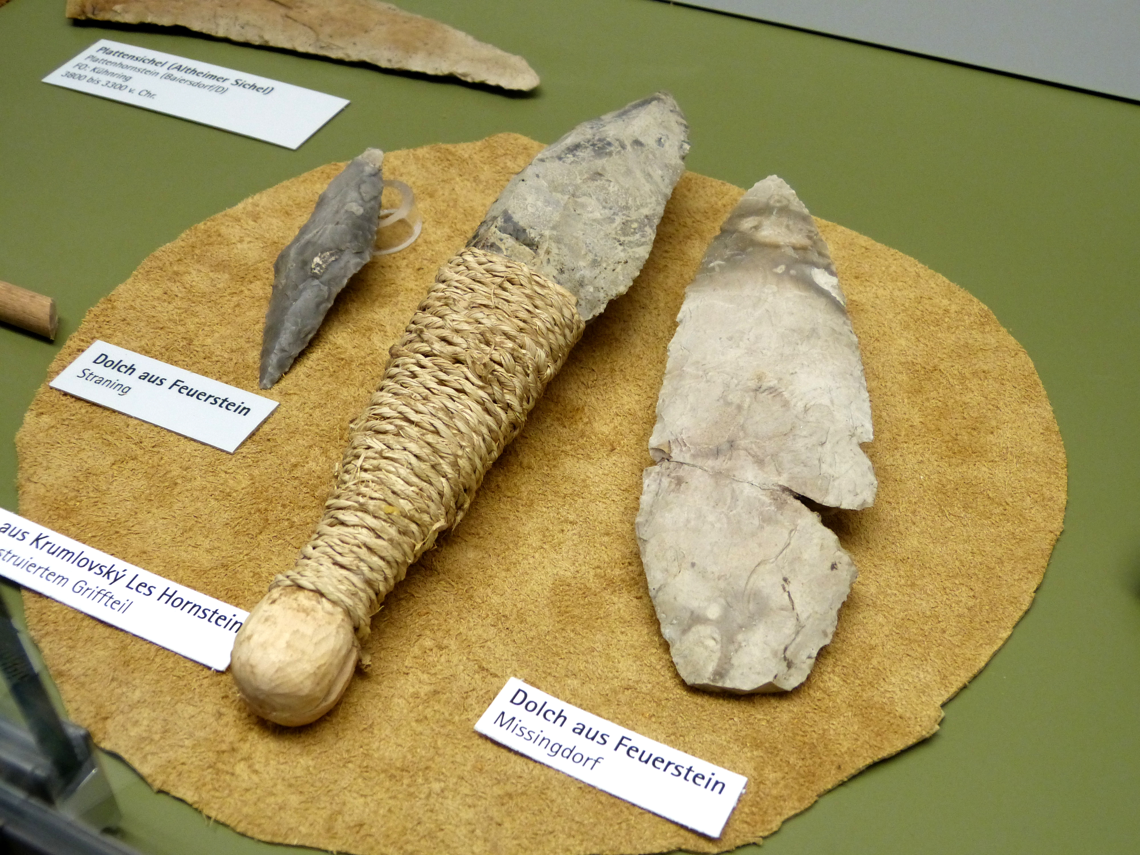 Eggenburg ( Lower Austria ). Krahuletz-Museum: Neolithic daggers of Linear pottery culture.